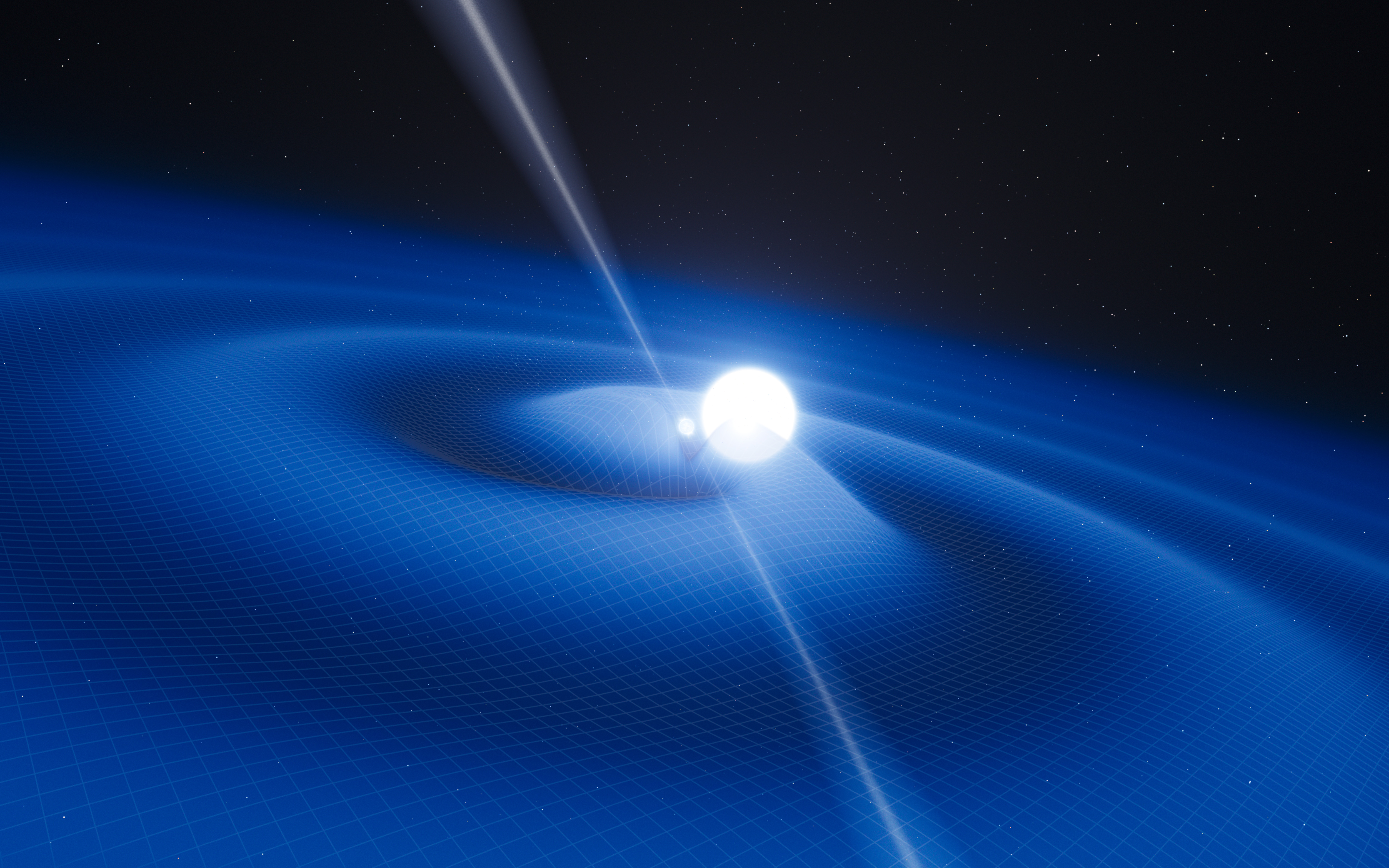 This artist’s impression shows the exotic double object that consists of a tiny, but very heavy neutron star that spins 25 times each second, orbited every two and a half hours by a white dwarf star. The neutron star is a pulsar named PSR J0348+0432 that is giving off radio waves that can be picked up on Earth by radio telescopes. Although this unusual pair is very interesting in its own right it is also a unique laboratory for testing the limits of physical theories. This system is radiating gravitational radiation, ripples in spacetime. Although these waves cannot be yet detected directly by astronomers on Earth they can be detected indirectly by measuring the change in the orbit of the system as it loses energy. As the pulsar is so small the relative sizes of the two objects are not drawn to scale.Deitsch: Diese künstlerische Darstellung zeigt ein exotisches Doppelsternsystem, das aus einem winzigen, aber sehr massereichen Neutronenstern besteht, der sich 25 mal pro Sekunde um sich selber dreht und alle zweieinhalb Stunden von einem Weißen Zwerg umkreist wird. Der Neutronenstern ist ein Pulsar, der Radiowellen abstrahlt, die dann auf der Erde mit Hilfe von Radioteleskopen empfangen werden können. Obwohl dieses ungewöhnliche Paar an sich schon sehr interessant ist, stellt es zusätzlich ein einzigartiges Testobjekt zur Überprüfung der Grenzen physikalischer Theorien dar. Das Doppelsternsystem strahlt Gavitationswellen ab, sozusagen kleine Rippel in der Raumzeit. Obwohl diese Wellen (in diesem Bild als Gitternetz dargestellt) von Astronomen auf der Erde nicht direkt nachgewiesen werden können, können sie indirekt vermessen werden, indem man die kleinen Veränderungen in der Umlaufbahn des Systems durch den Energieverlust misst. Da der Pulsar sehr klein ist, sind die relativen Größen der beiden Objekte nicht maßstabsgetreu dargestellt.